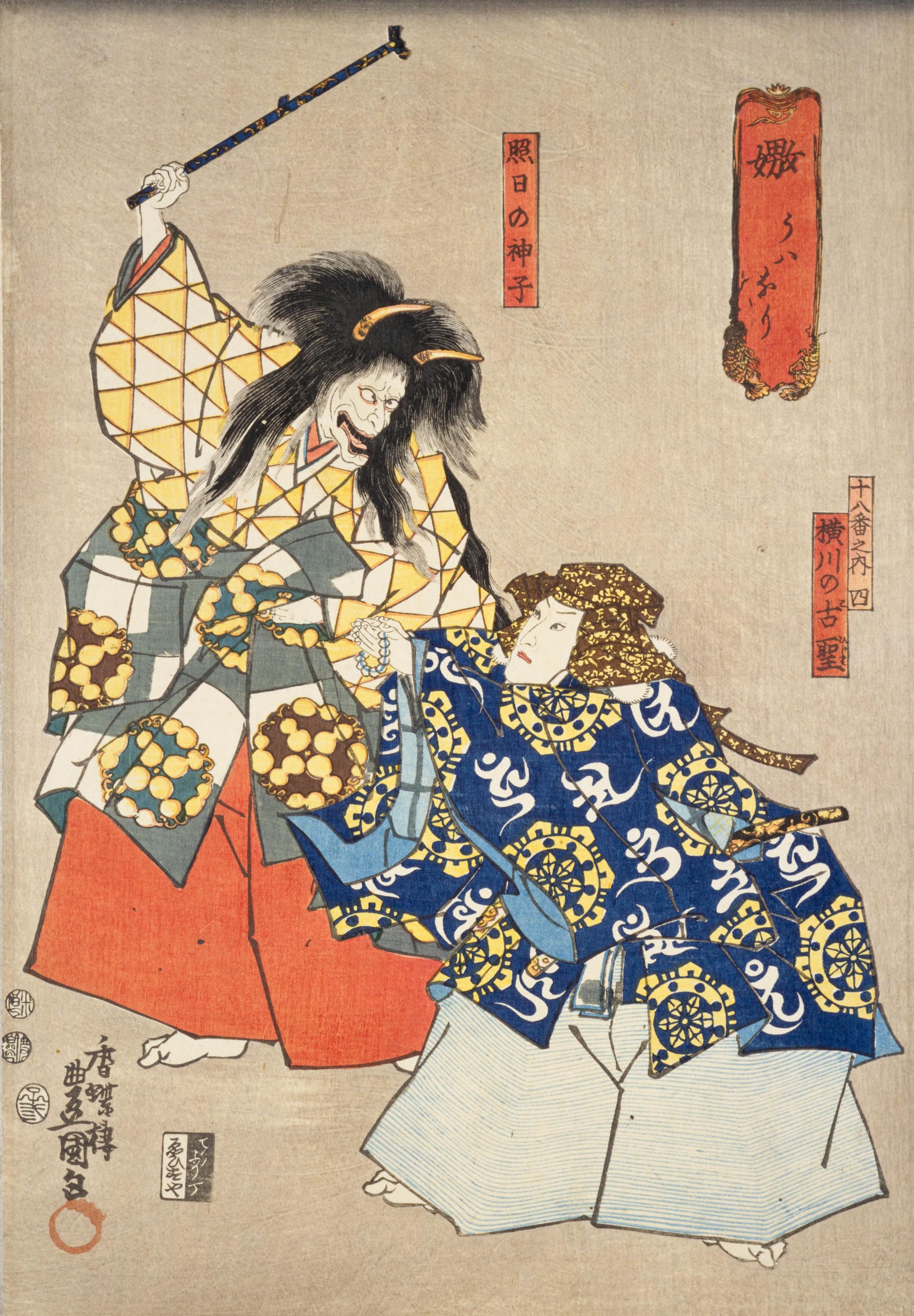 Part of the series The Eighteen Great Kabuki Plays, No. 04